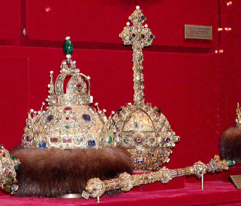 Photo of Russian royal regalia on display in the Kremlin Armoury, Moscow, taken August 2003 by User:Stan Shebs